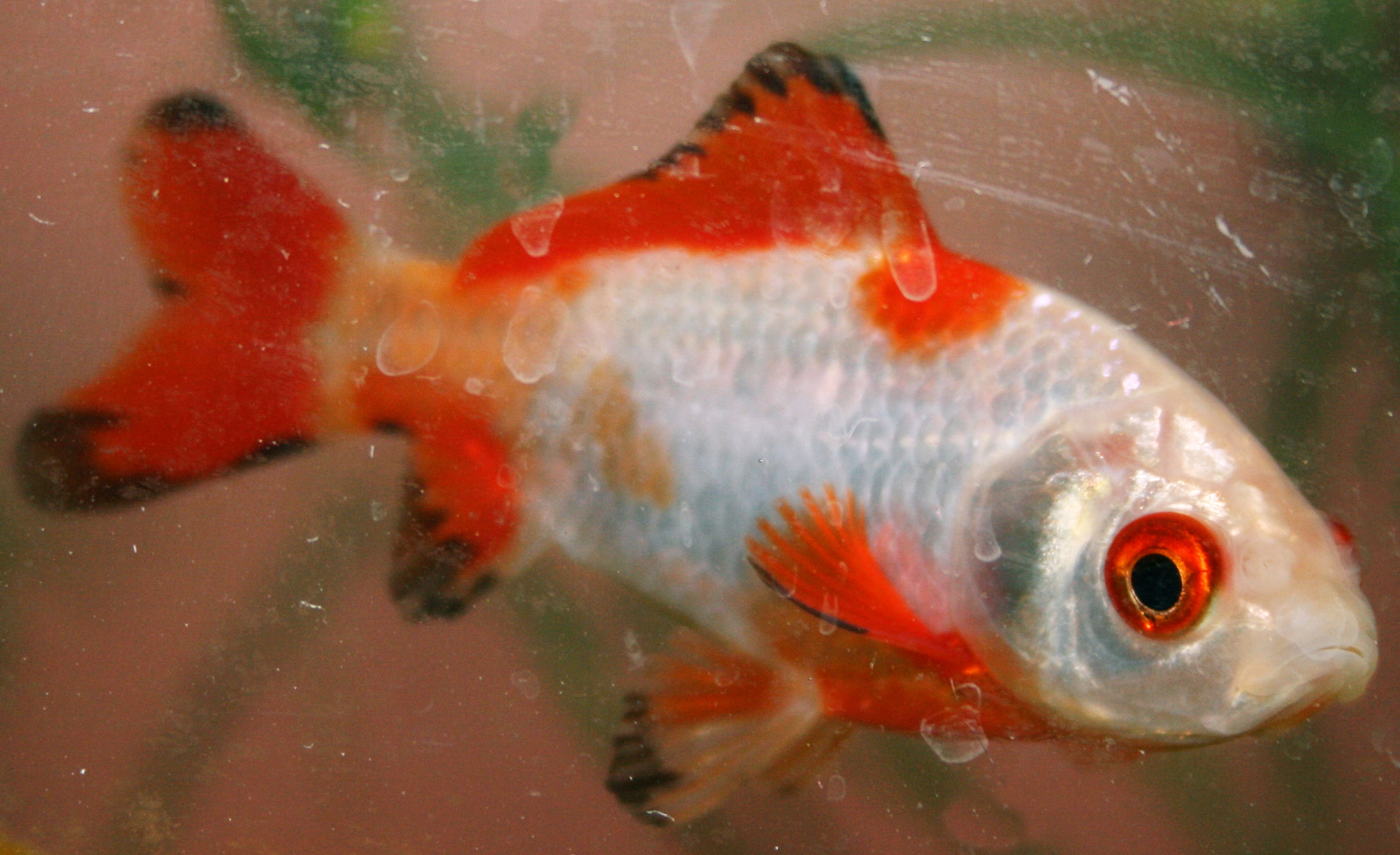 Baby sarasa comet goldfish.